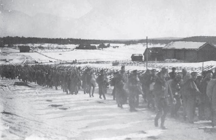 Russian soldiers are escorted to the town of Eckerö in Åland. The Germans captured the Russians from the "SS Baltic" in 8 march 1918.